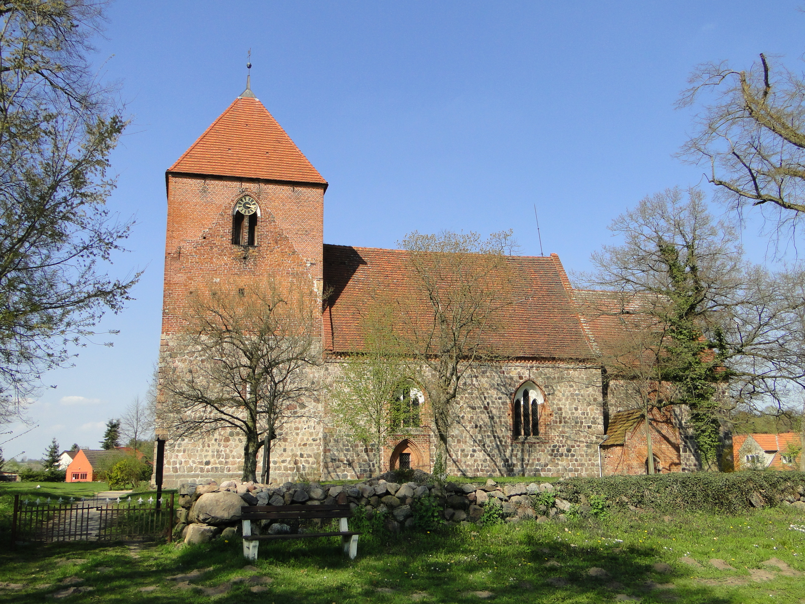 Church in Lohmen, district Güstrow, Mecklenburg-Vorpommern, Germany